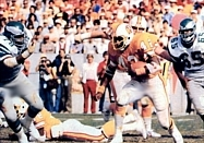 A football card from the 1986 Jeno's Pizza NFL football card stickers set of Tampa Bay Buccaneers' running back Ricky Bell rushing the ball during the 1979 NFC Divisional Playoff Game on December 29, 1979. The card is numbered #19 in the set. The back of the card reads: BELL SETS A PLAYOFFS RECORDS The late Ricky Bell charges into the Philadelphia Eagles' defense on one of his playoff-record 38 carries, as he leads the Tampa Bay Buccaneers past the Philadelphia Eagles in their 1979 NFC Divisional Playoff Game 24-17. Bell ran for 142 yards and 2 touchdowns, after rushing for 1,263 yards in the regular season.